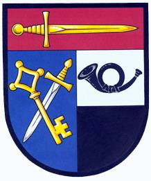 Municipal coat of arms of Milovice u Hořic village, Jičín District, Czech Republic.